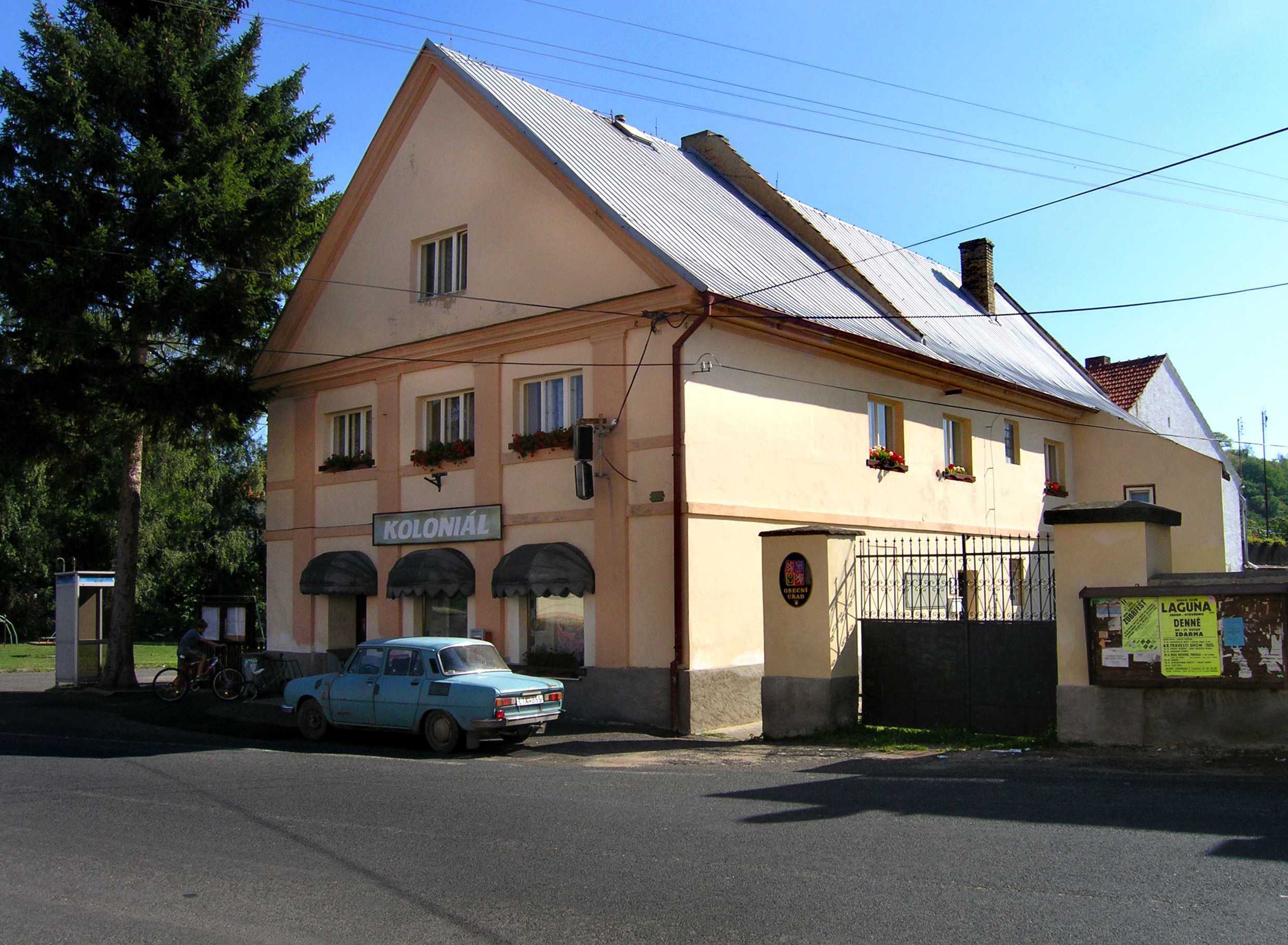 Municipally office in Býčkovice village, Czech Republic